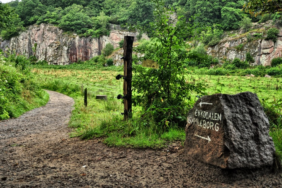 A trail in Almindingen, between Gamleborg and Ekkodalen, on the island of Bornholm, Denmark